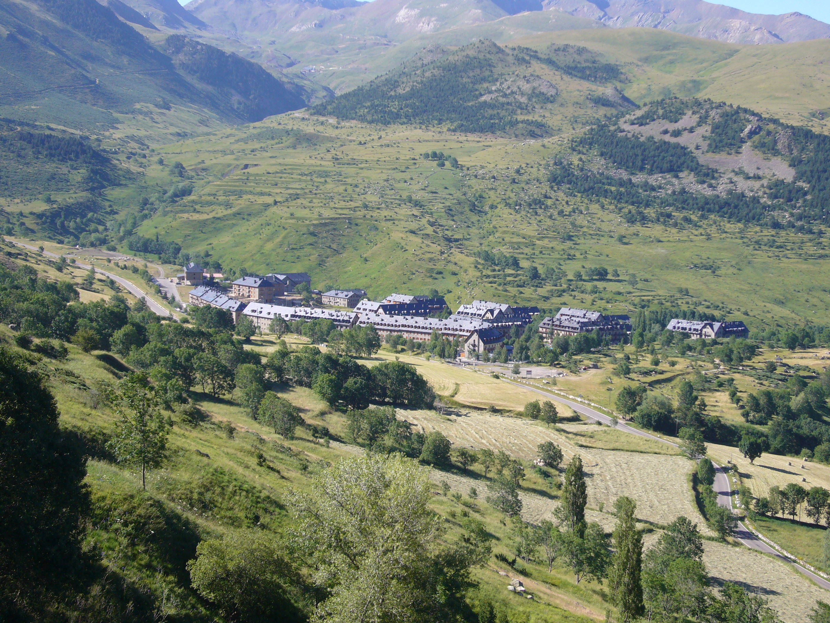 Pla de l'Ermita, la Vall de Boí, Alta Ribagorça, Catalonia